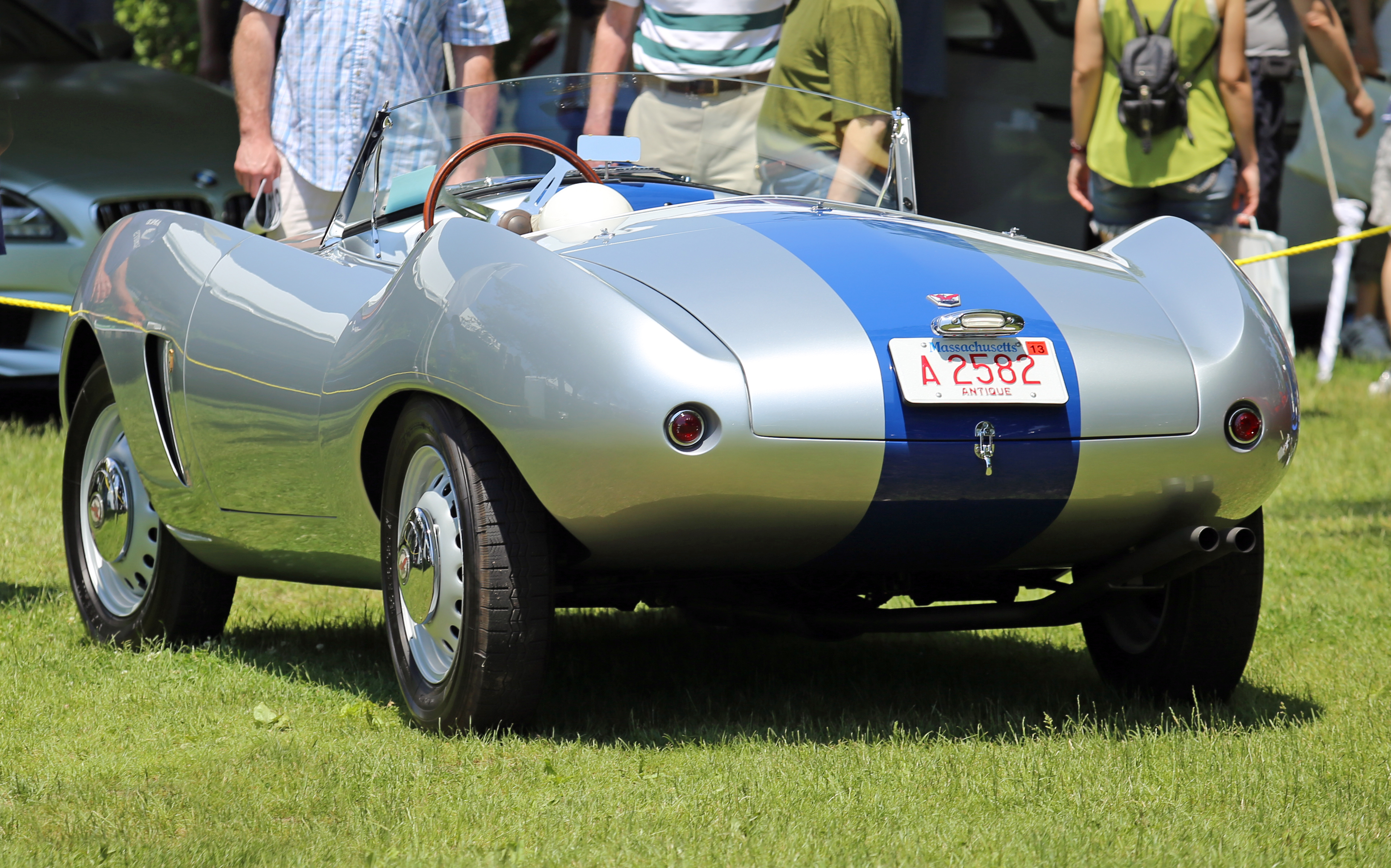 Rear view of a 1954 Arnolt-Bristol "Bolide" at the 2013 Greenwich Concours d'Elegance.